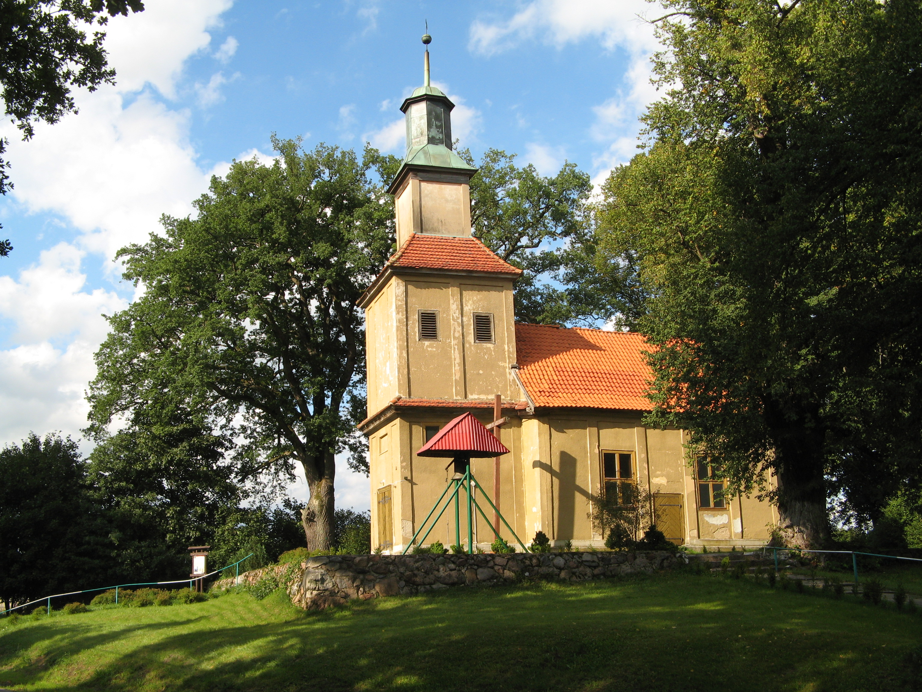 Church in Białowąs, Poland (before 1945 german Balfanz)